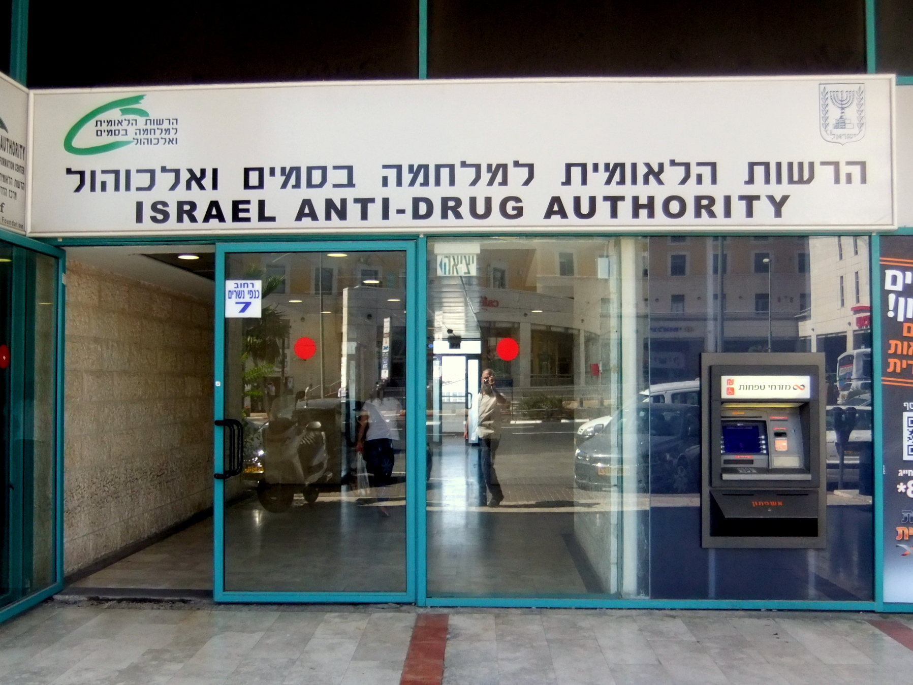 Jerusalem office of drug use prevention agency of Israel